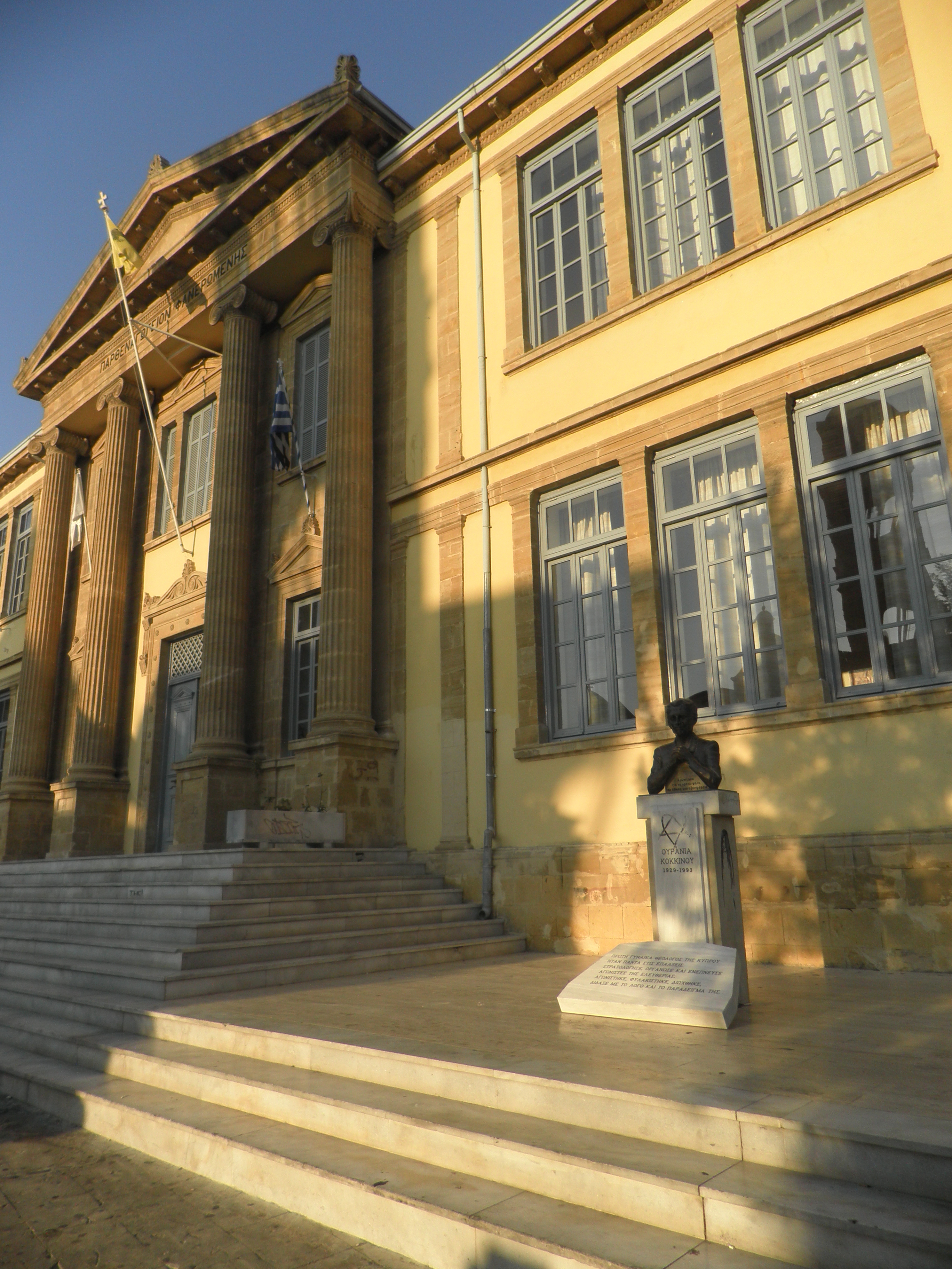 Parthenagogeio Faneromenis: Ourania Kokkinou Bust